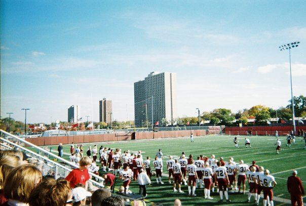 Edor Nelson Field at Augsburg College in Minneapolis